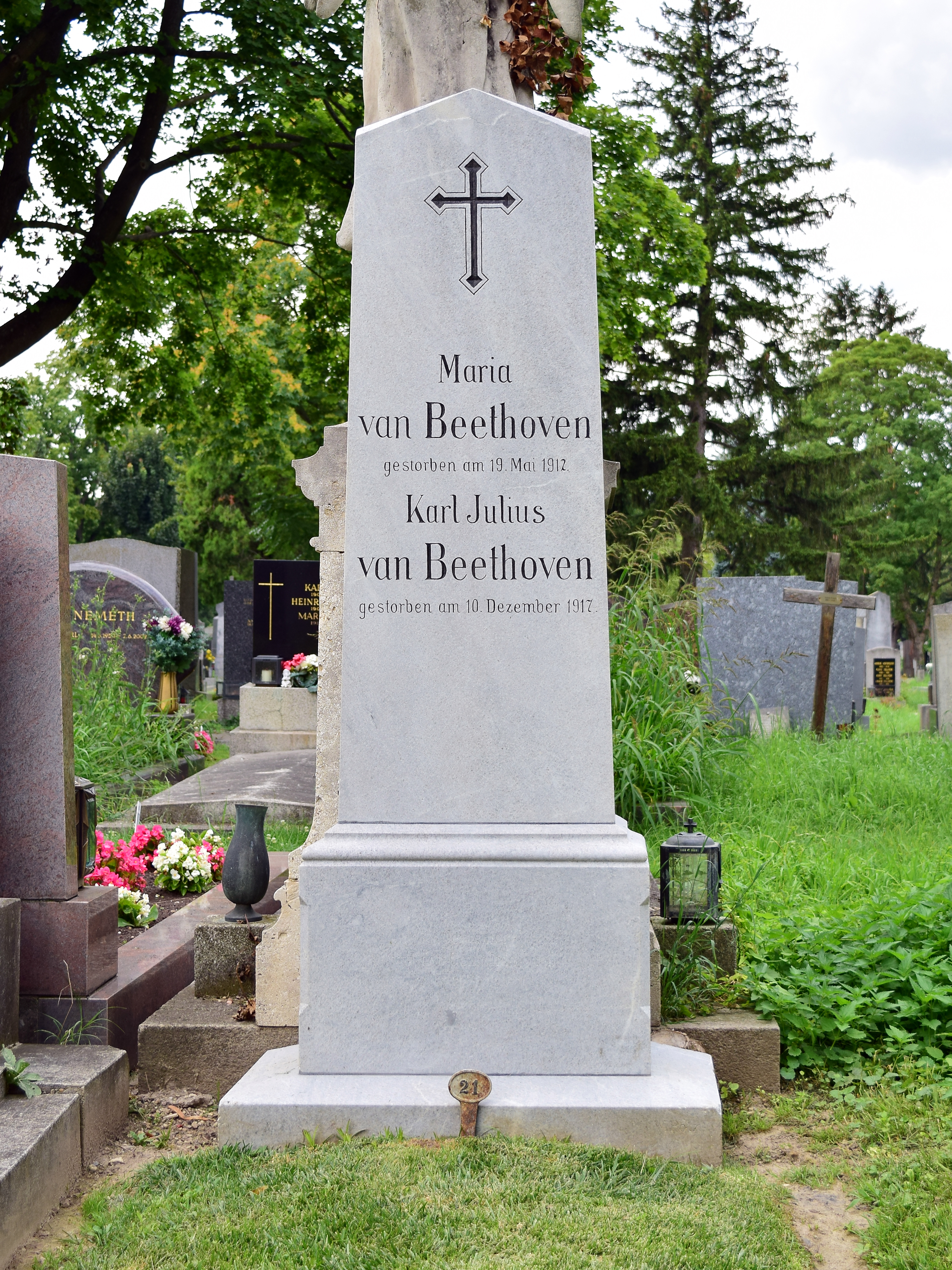 Grave of honor of Maria und Karl Julius van Beethoven at the Wiener Zentralfriedhof